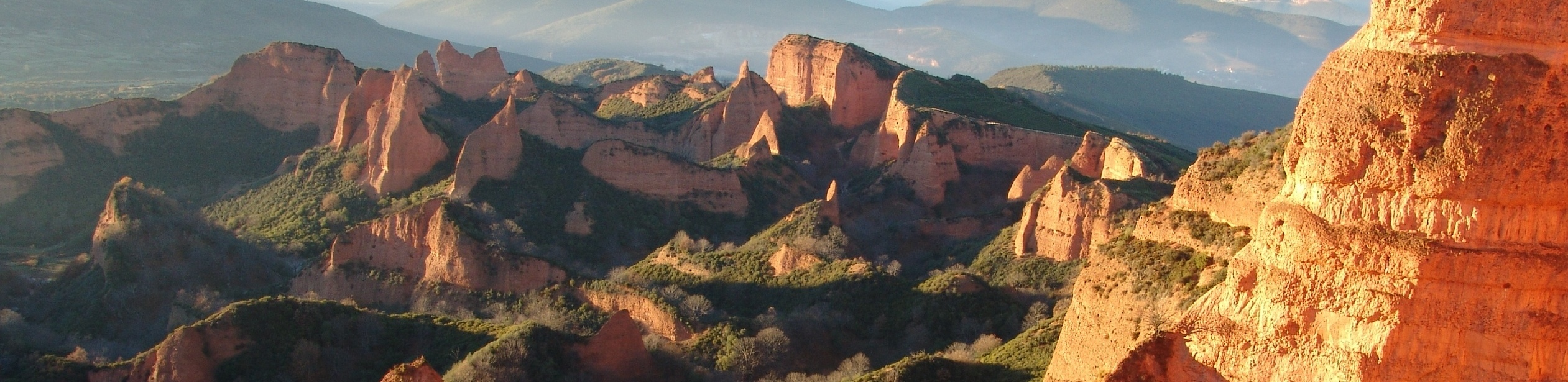 Picture taken by Rafael Ibáñez Fernández in Las Médulas, province of León, Spain, on 11th December, 2005. Original picture with 2.13 MB resolution.